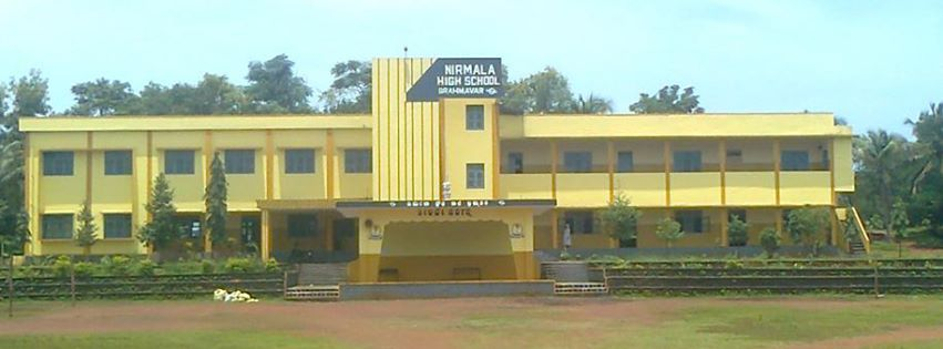 Photo of Nirmala High School, Brahmavar